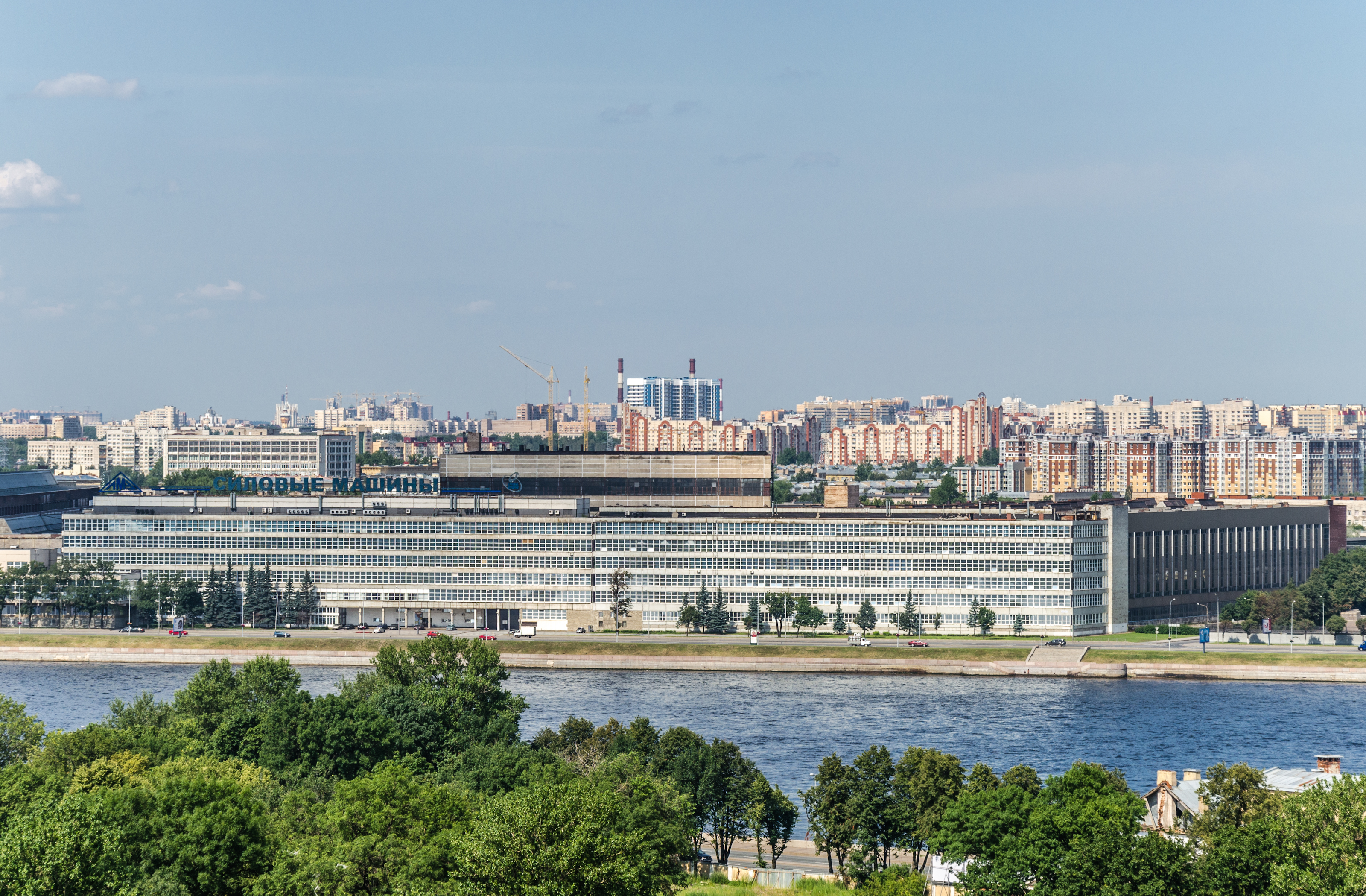 Power Machines plant building in Saint Petersburg. View from Smolny Cathedral.